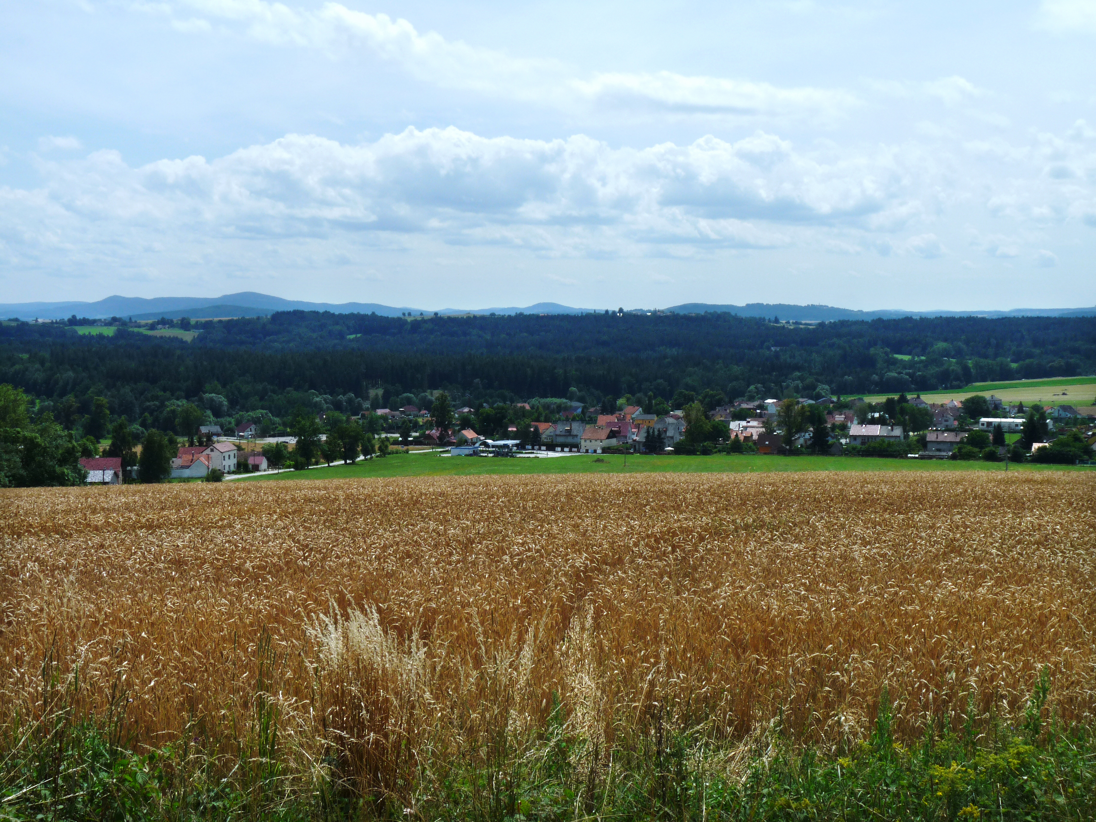 Beehives in the village of Nová Ves, České Budějovice District, Czech Republic. Česky: Úly v obci Nová Ves, okres Českých Budějovice.